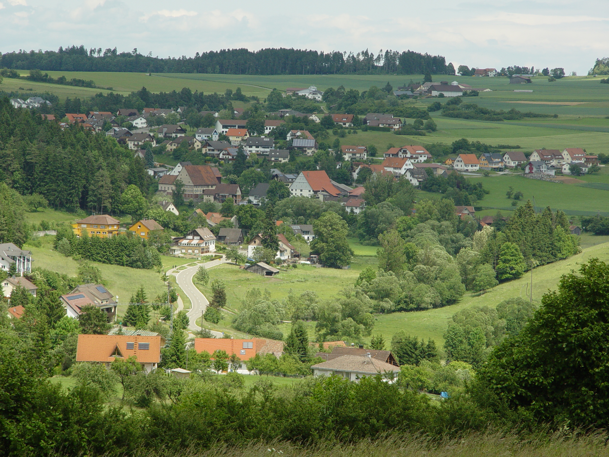 Stetten ob Rottweil (Zimmern ob Rottweil)